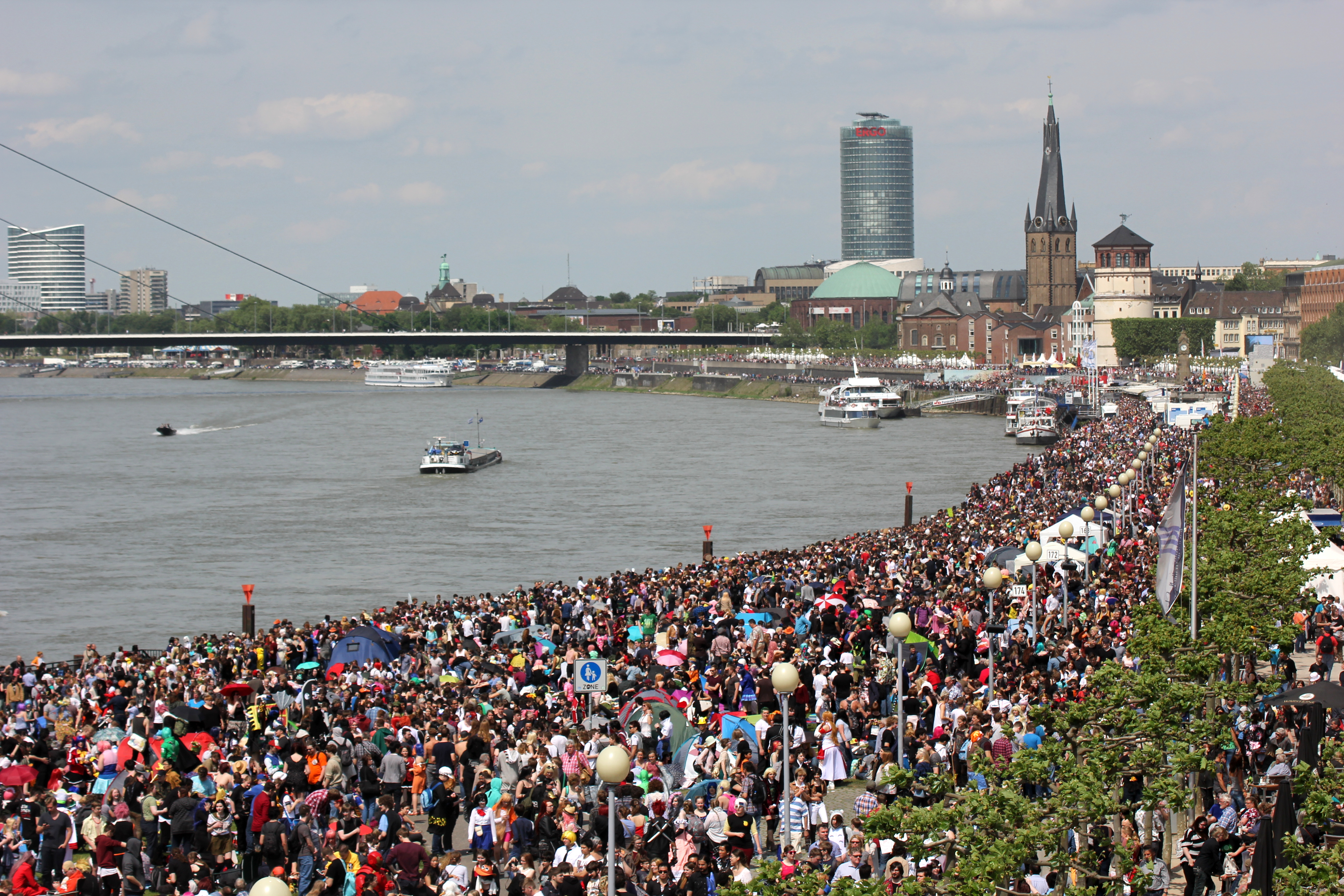 Cosplay during the 15th Japan-Day in Duesseldorf on 21st May 2016.